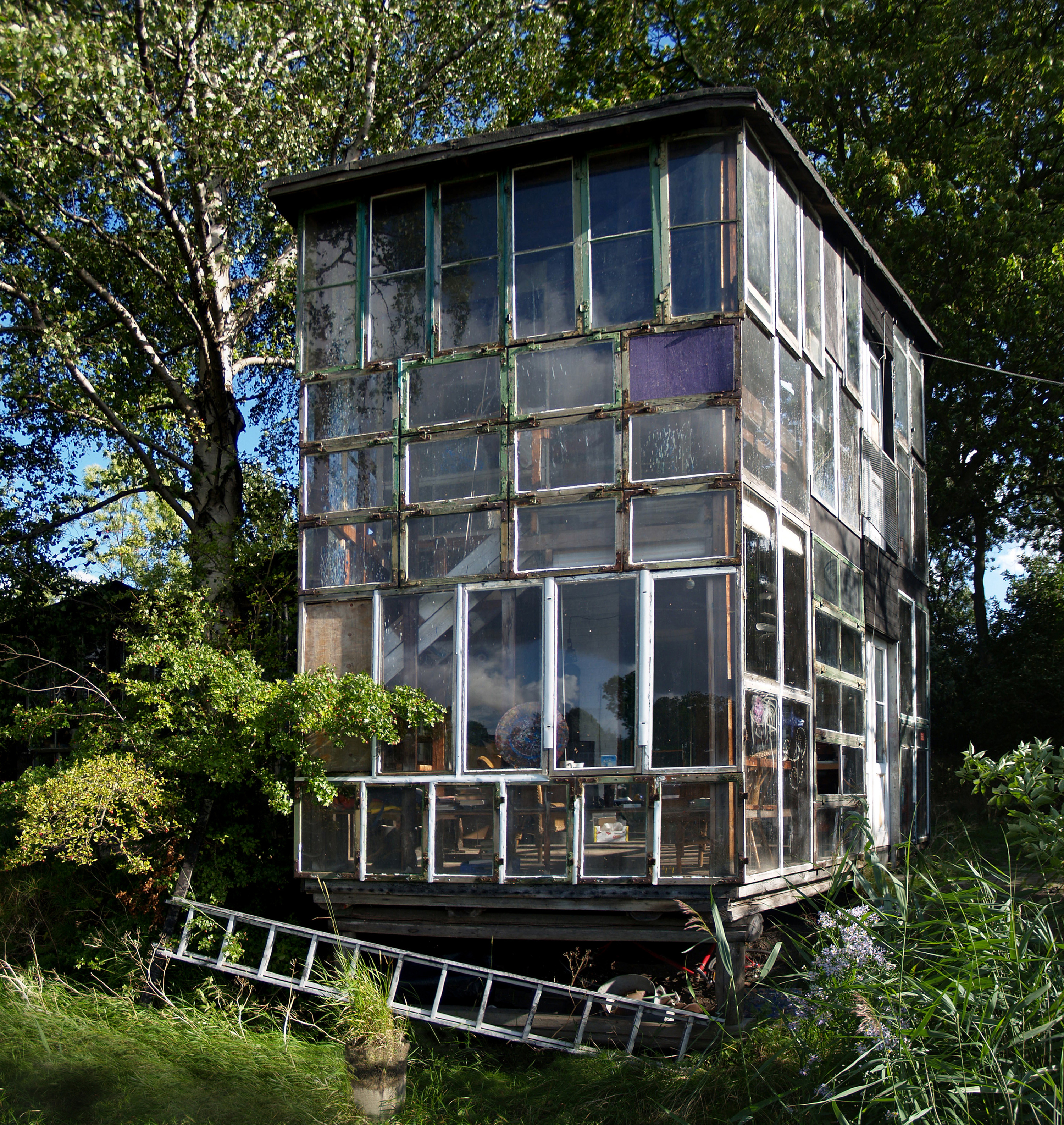 A glass house in Christiania - August 2007